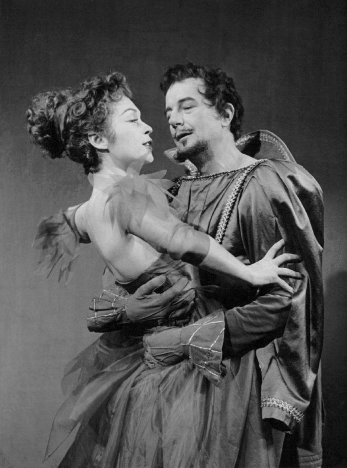 Photo of Lilli Palmer and Maurice Evans in the Hallmark Hall of Fame presentation of Taming of the Shrew.